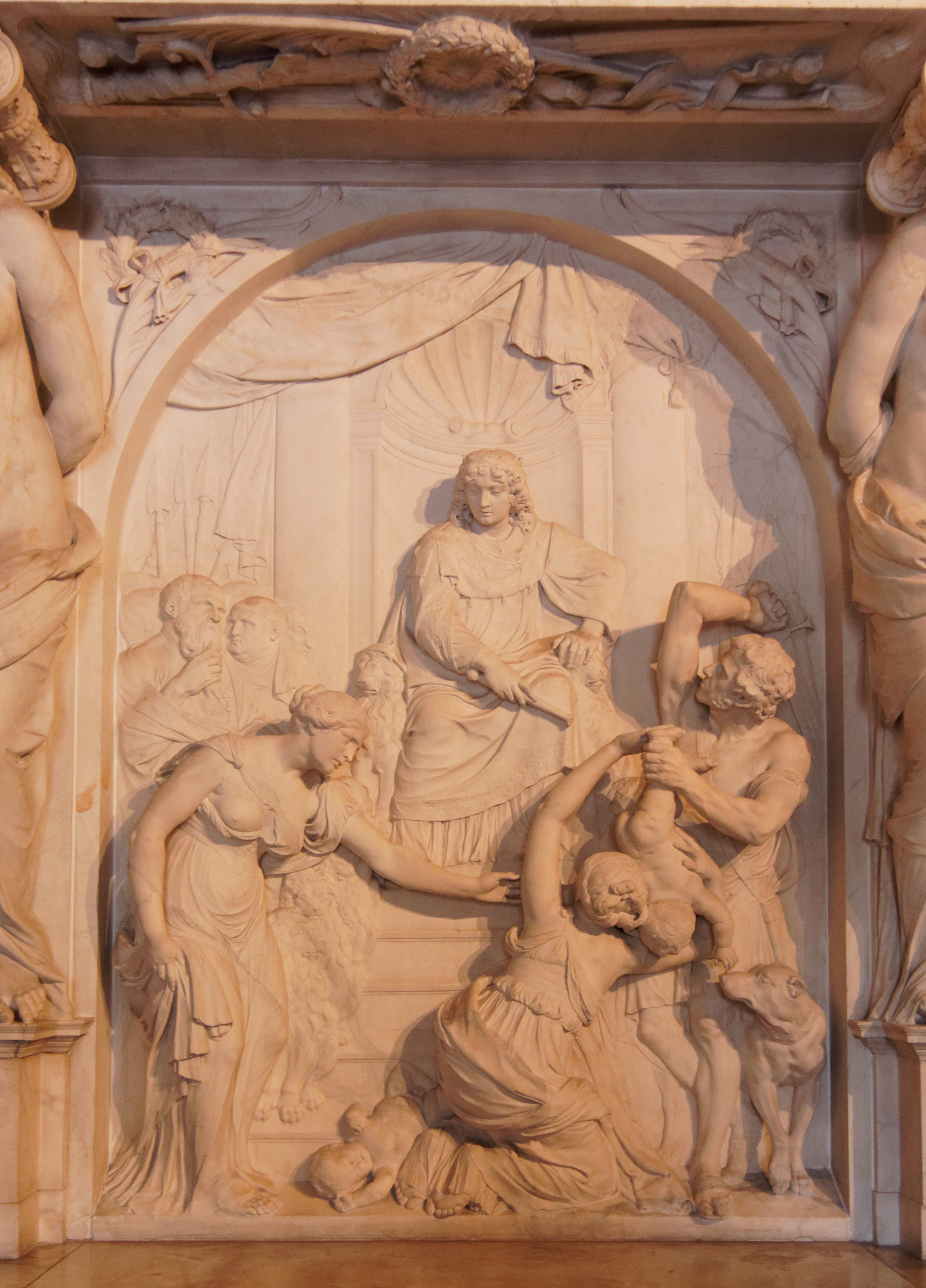 Royal Palace of Amsterdam - execution room